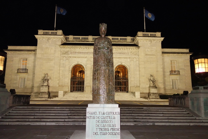 Statue of Isabella I the Catholic in front of the seat of the Organization of American States in Washington D.C., United States of America